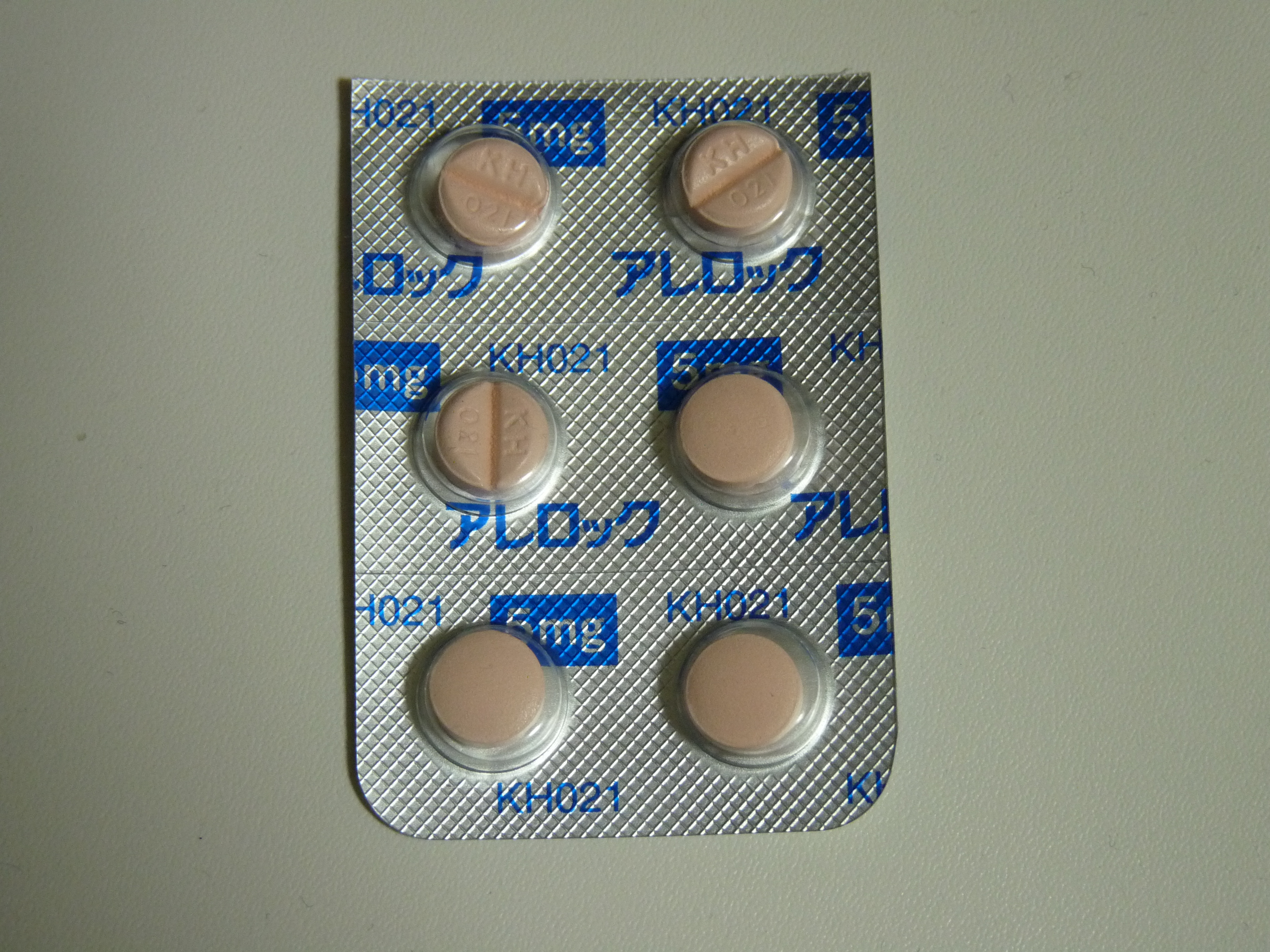 Allelock (Olopatadine)